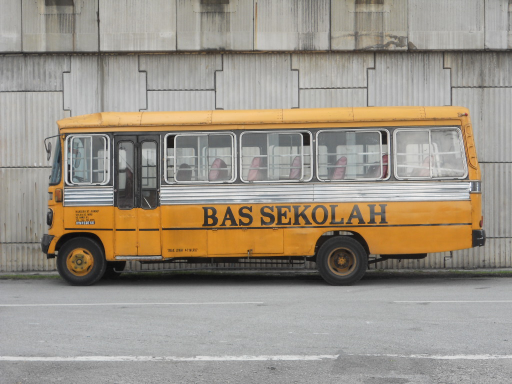 School Bus